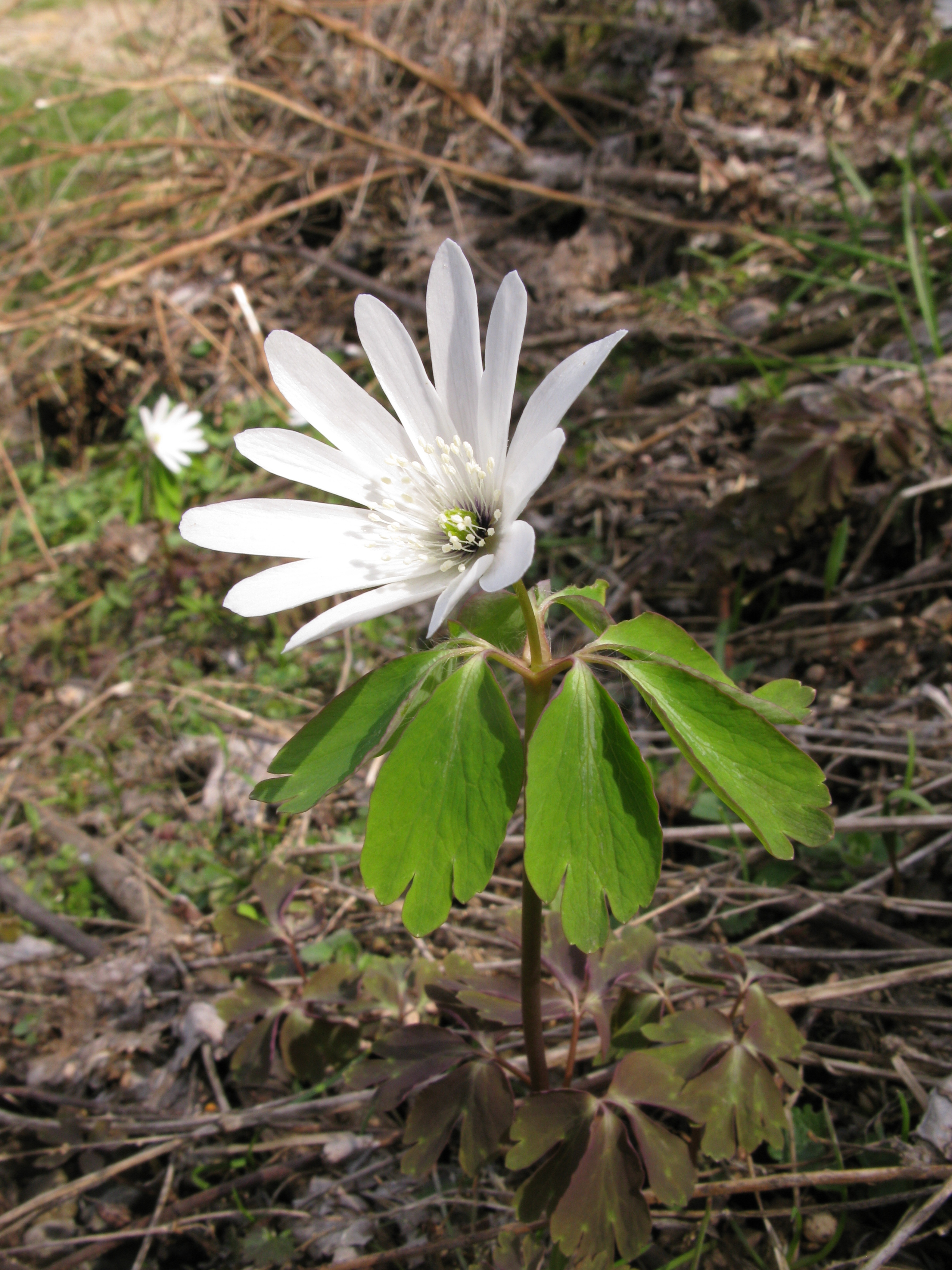 Anemone raddeana, Aizu area, Fukushima pref., Japan